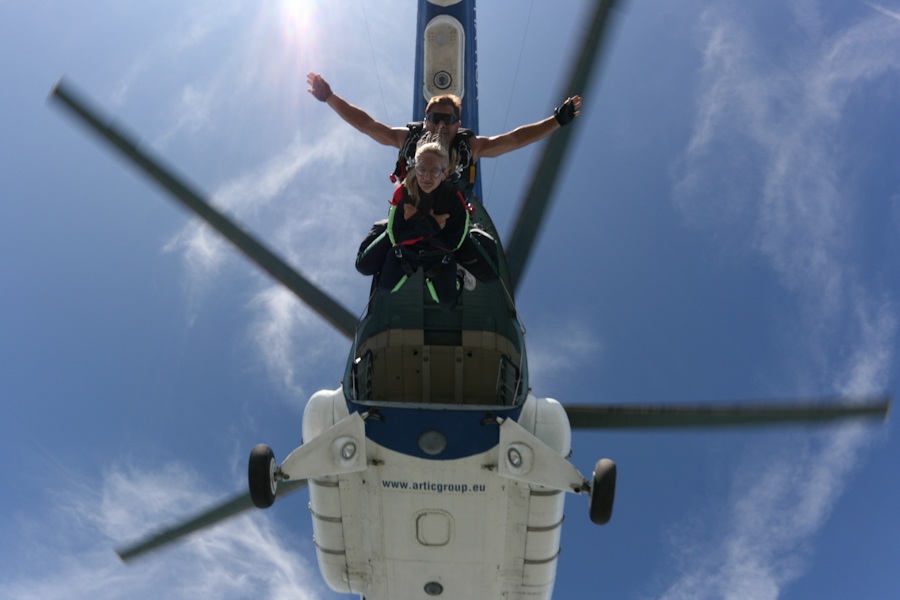 Tandemjump from Mi-8 helicopter